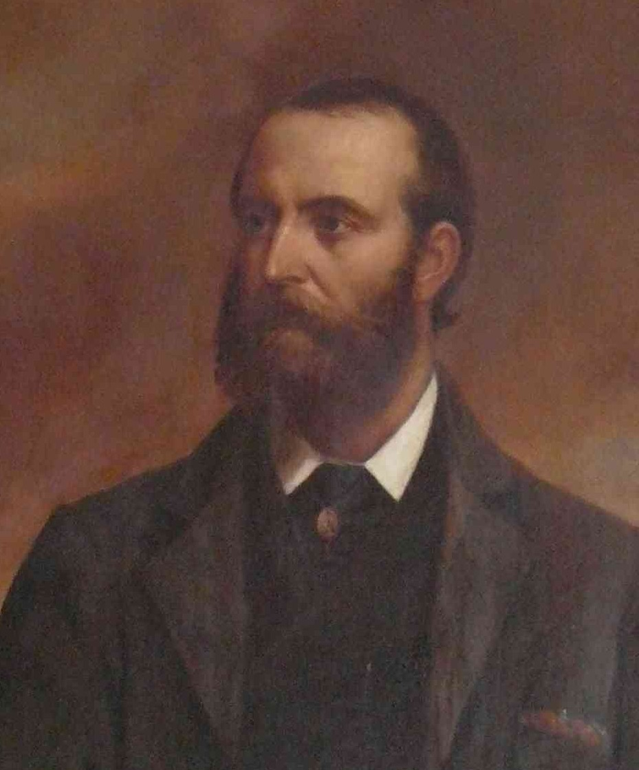 Portrait image of the Irish political leader Charles Stewart Parnell (1846-1891), extracted from a standing portrait of Parnell by artist Henry O’Shea, Limerick, in 1885. Original hangs in ‘The Georgian House & Garden’, No.2 Percy Square, Limerick Ireland, a Civic Trust Enterprise open to the public.